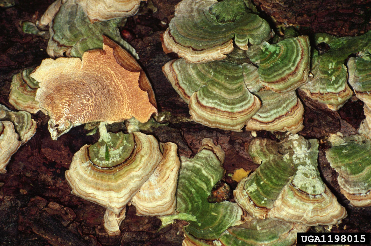 Fruiting bodies of Trichaptum biforme; the tops of the thin, flexible sporocarps are sometimes covered with algae. Causes a sapwood rot or canker rot on hardwoods.